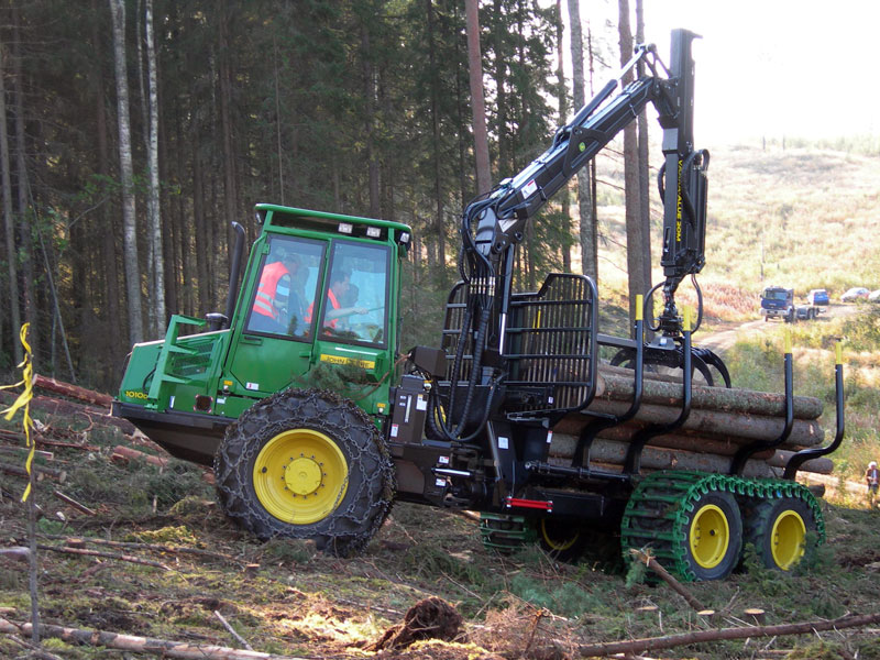 John Deere 1010D forwarder in Finland